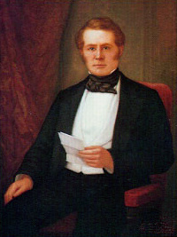 John McDougal